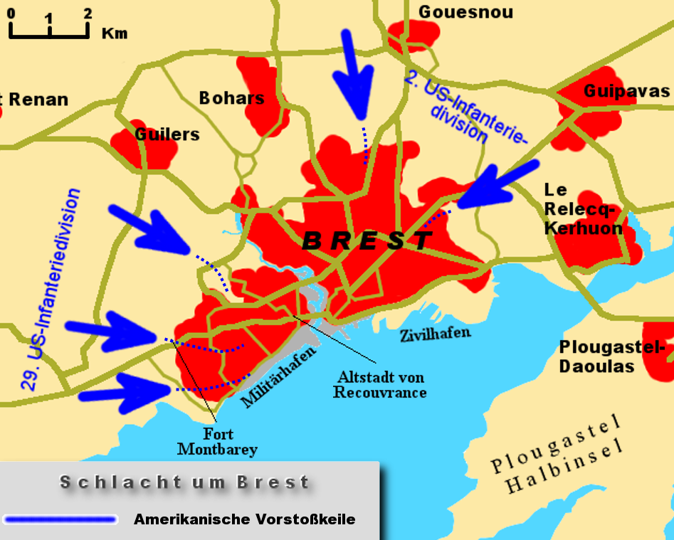 Description: Schlacht um Brest: Situation ca. 16. September 1944 Source: self-made by User:W.wolny